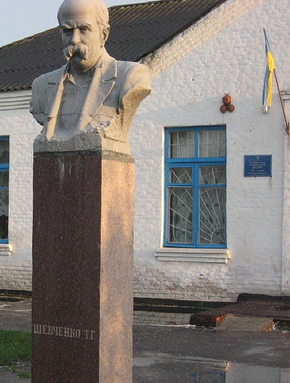 Bust of Taras Shevchenko in the village Kozlivschyna